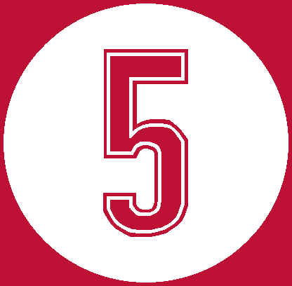 The number "5", retired for Johnny Bench by the Cincinnati Reds.